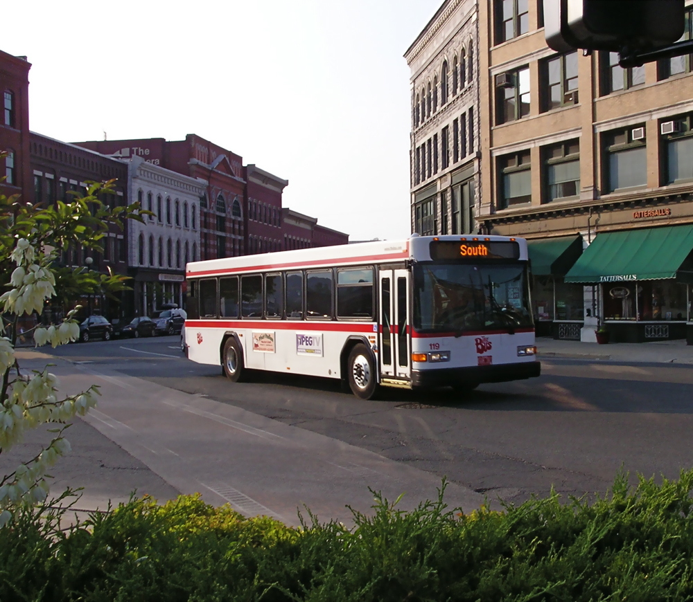 The Bus; Rutland, Vermont, July 2010